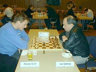 Florian Grafl - Lev Gutman, German chess championship 2001 at Altenkirchen (Westerwald), Photographer Gerhard Hund.